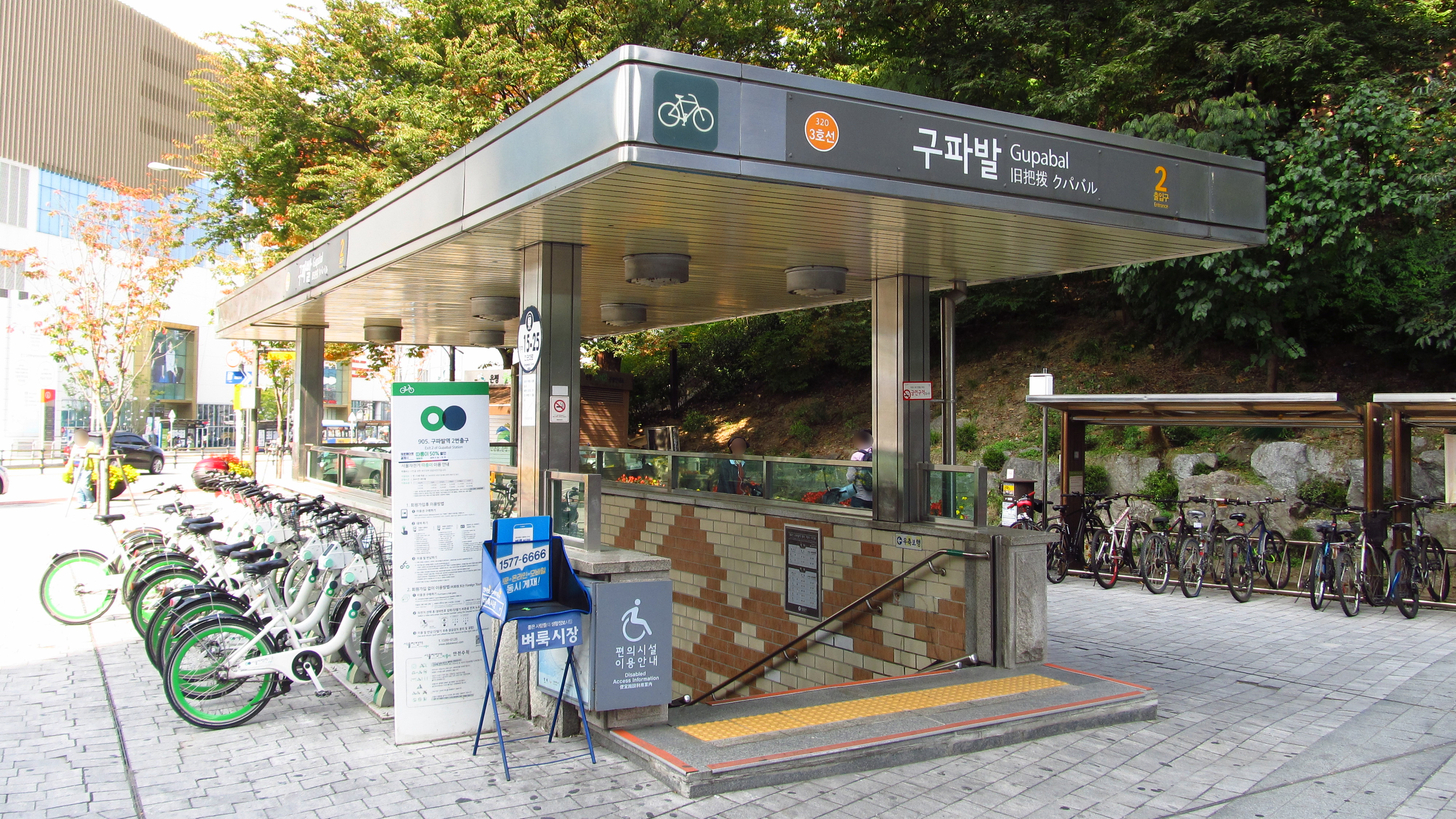 The no.2 entrance to Gupabal Station on the Seoul Metro Line 3 in Eunpyeong-gu, Seoul, Republic of Korea(South Korea)